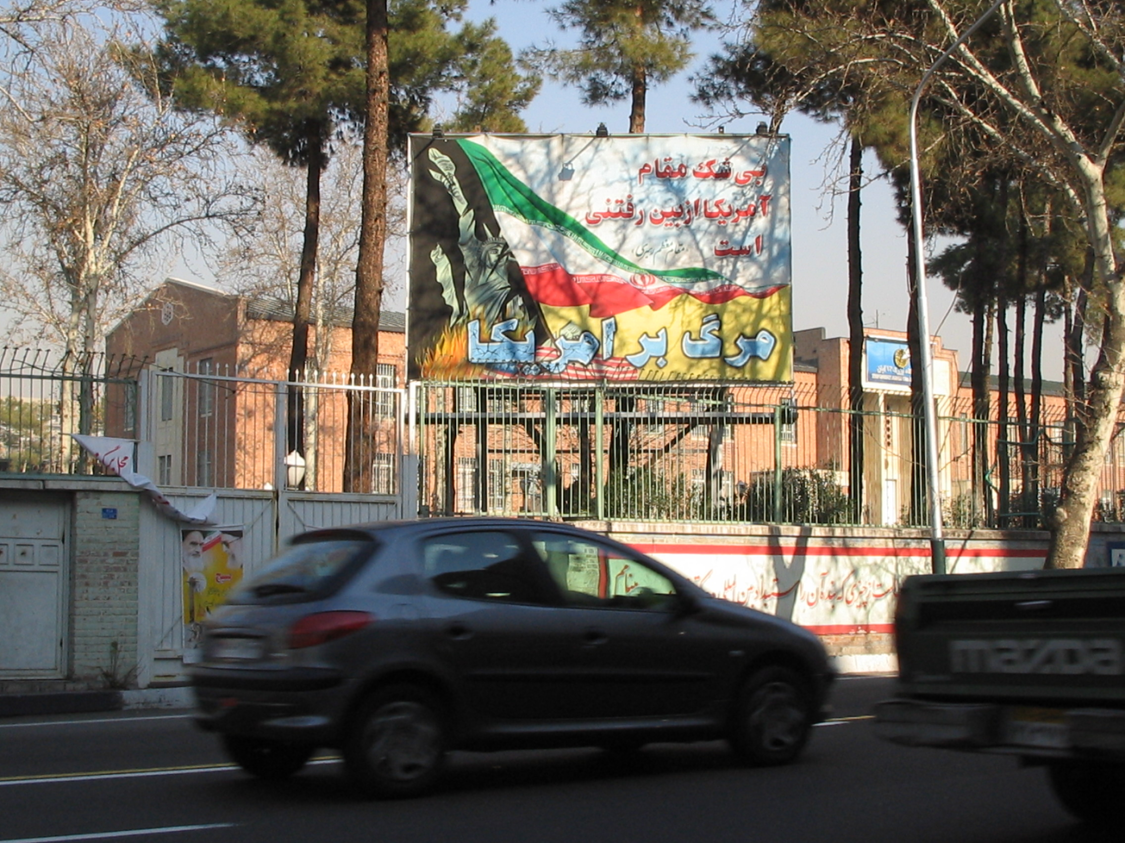 Former US embassy in Tehran, Iran